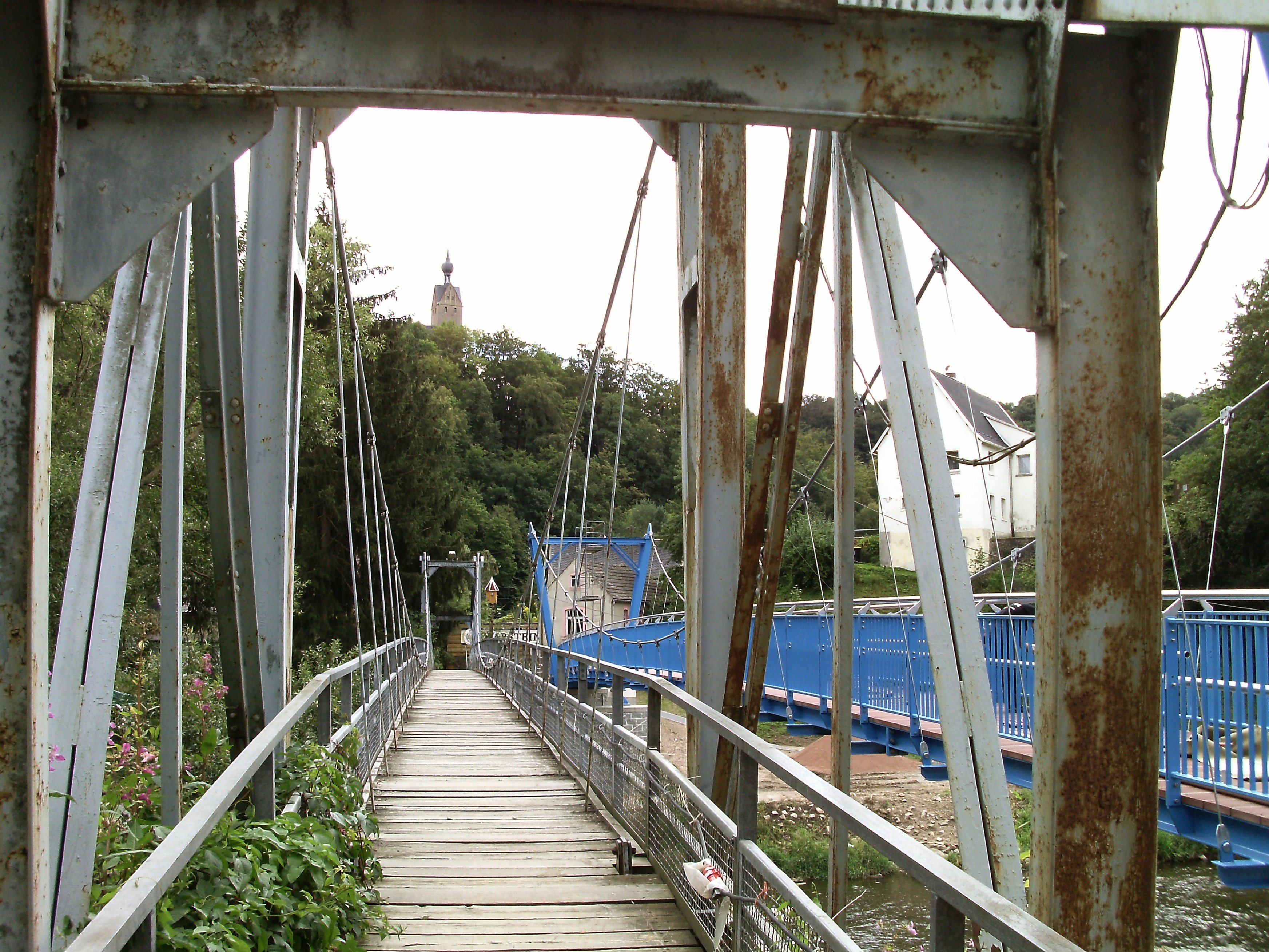 Old bridge and new bridge (under construction in August 2011) over the Zwickauer Mulde river at Rochsburg (Lunzenau, Mittelsachsen district, Saxony)